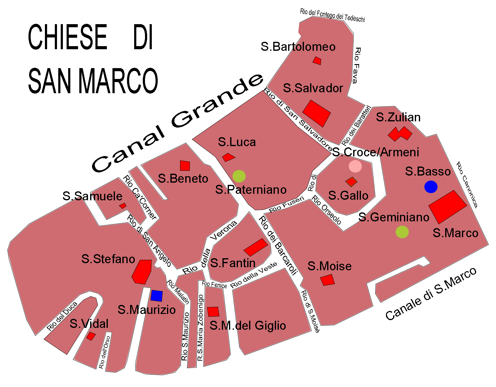 Churches of San Marco - map - Venezia